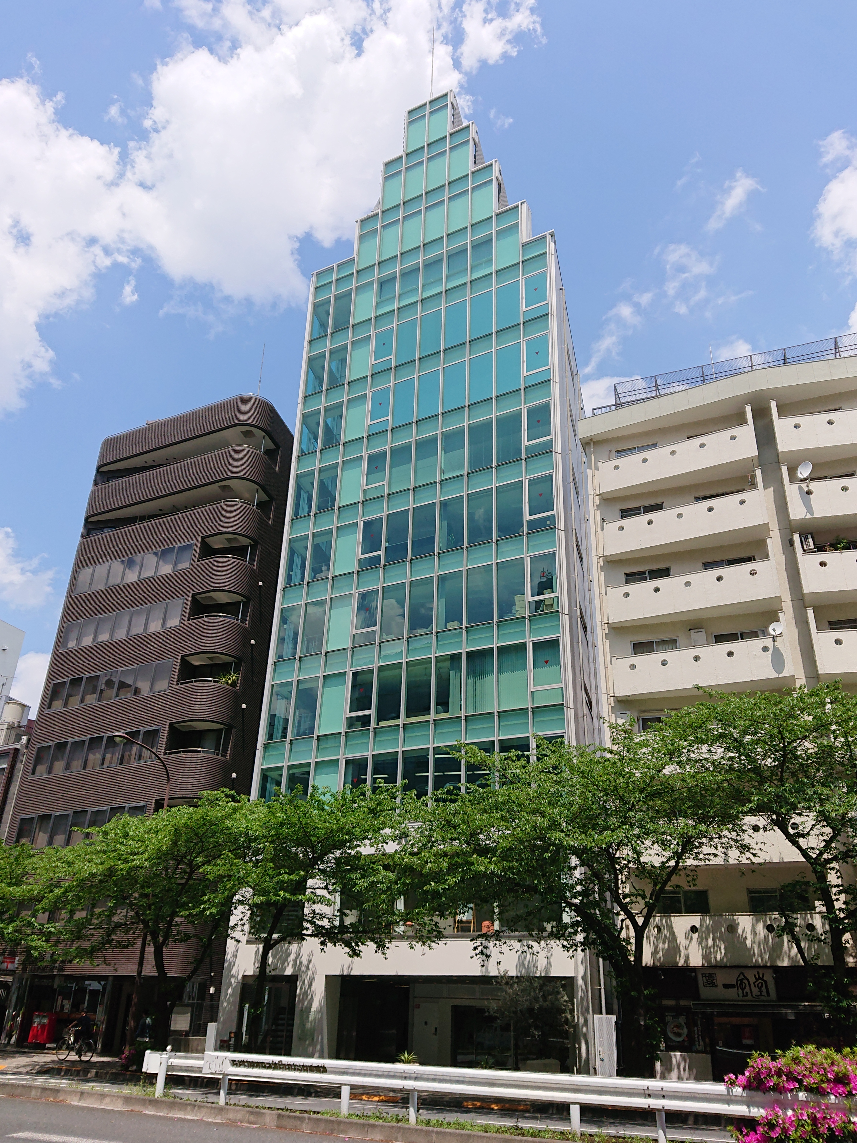 Asax Hiroo Building, at 1-3-14 Hiroo, Shibuya, Tokyo, Japan